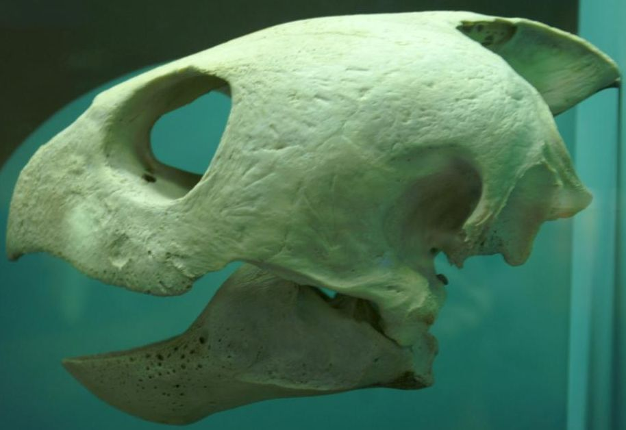 Photo by David Stang. First published at